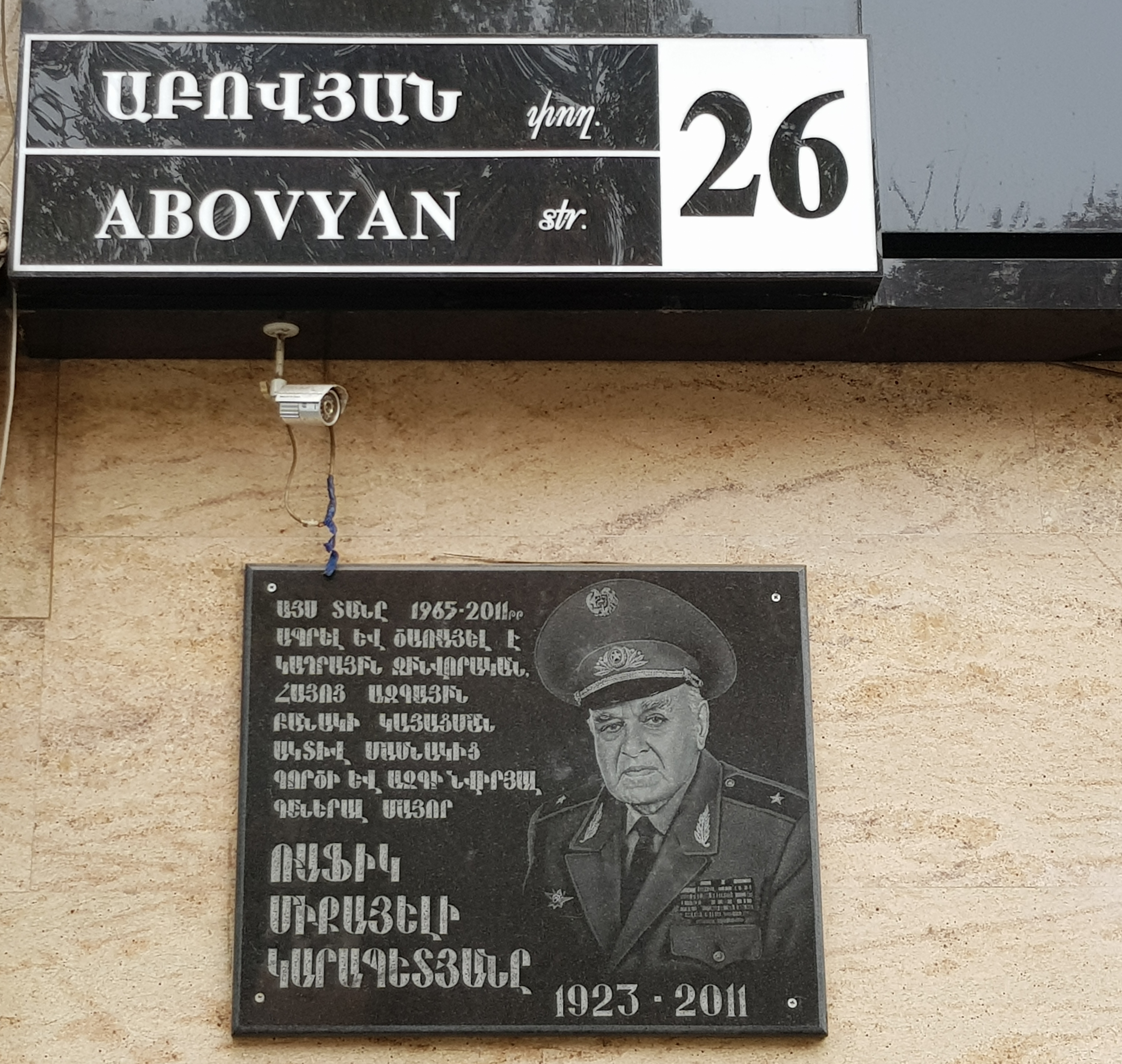 Rafik Karapetyan's Plaque